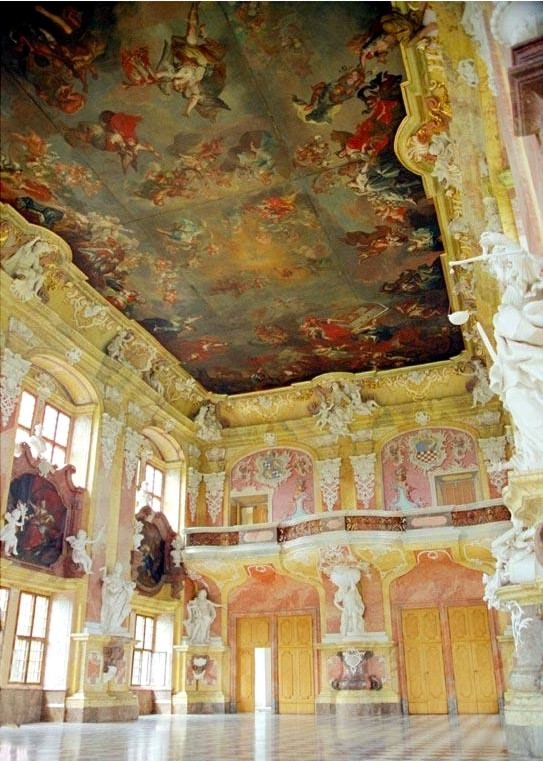 The western side of the Fürsten hall with the gallery in the monastery in Lubiąż.